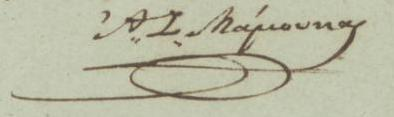 The signature of Andreas Z. Mamoukas, Greek author from a letter to Prime Minister Colettis, seen in the Archives of Academy of Athens [1]